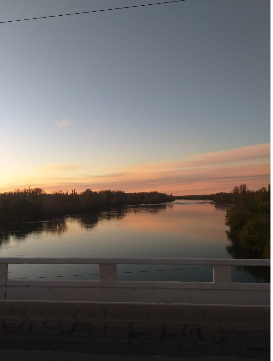 Image of the Río Negro, taken early in the day, before the start of the working day, on the bridge of the Choele Choel Island.